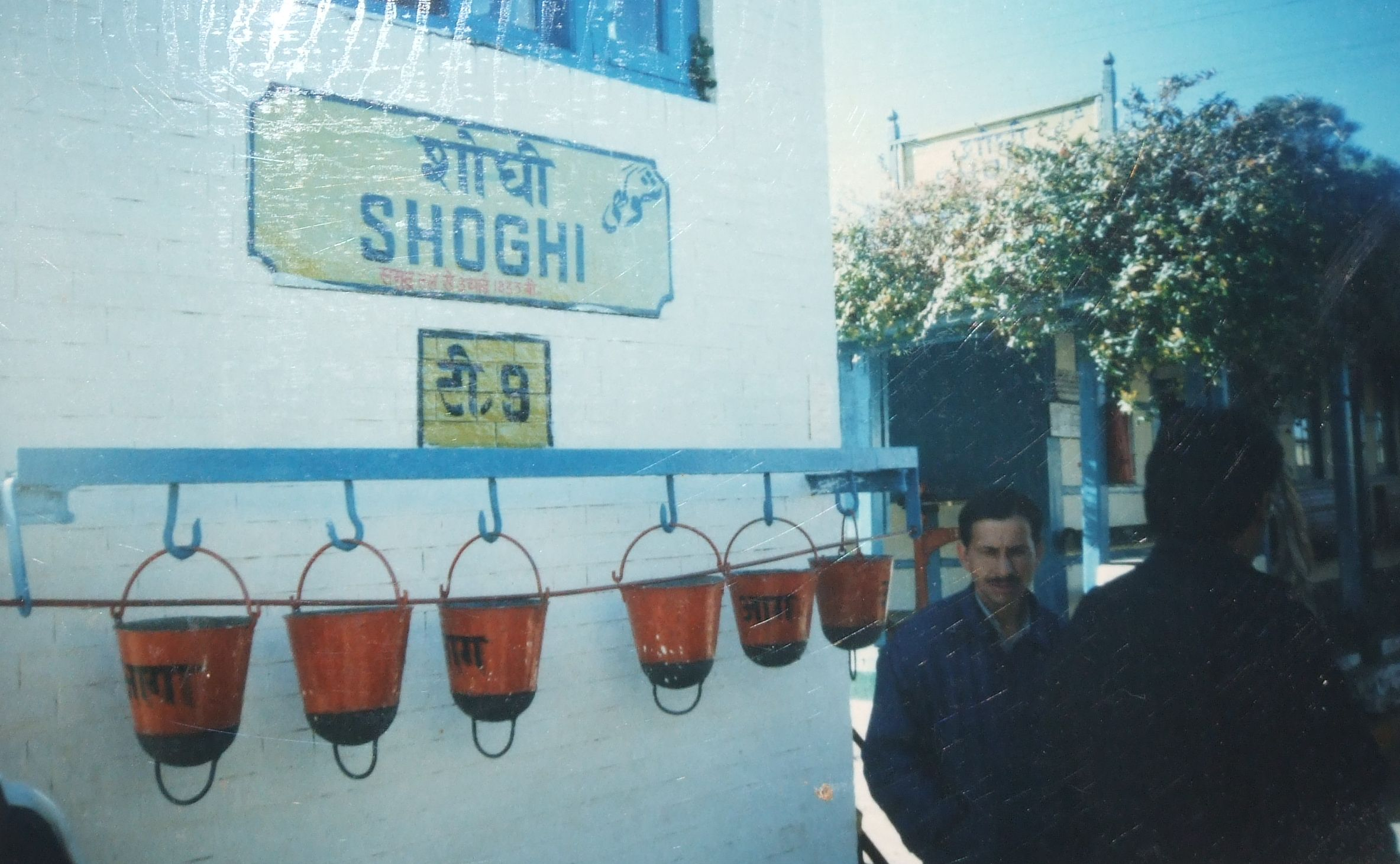 Railway Station of Shoghi, Himachal Pradesh.